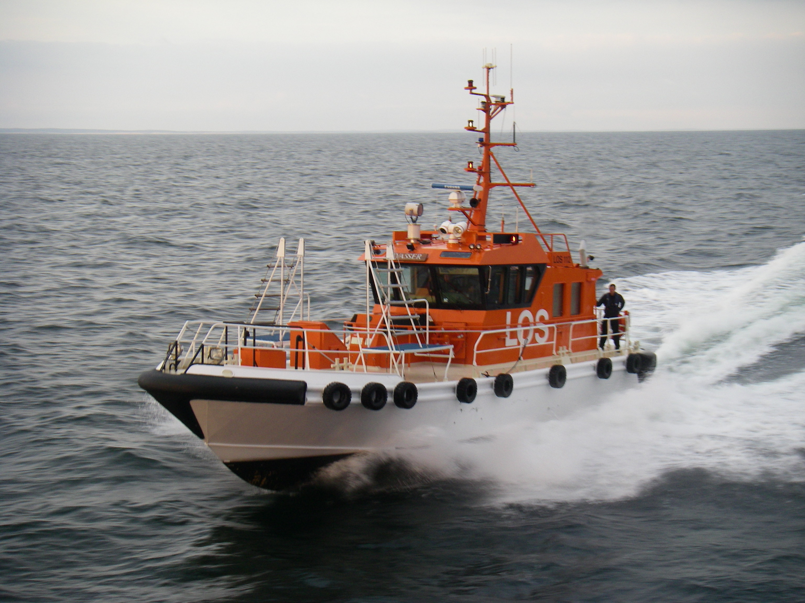 Pilot boat just before boarding of ship in the Oslo fjord.